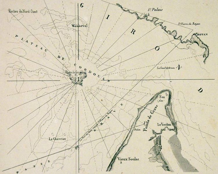 Map of the Cordouan island during the XVIIth century